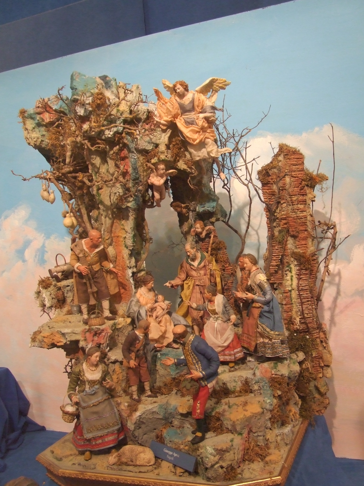 Neopolitan crib in Krzysztofory museum near Main Squere of Cracow - 2006